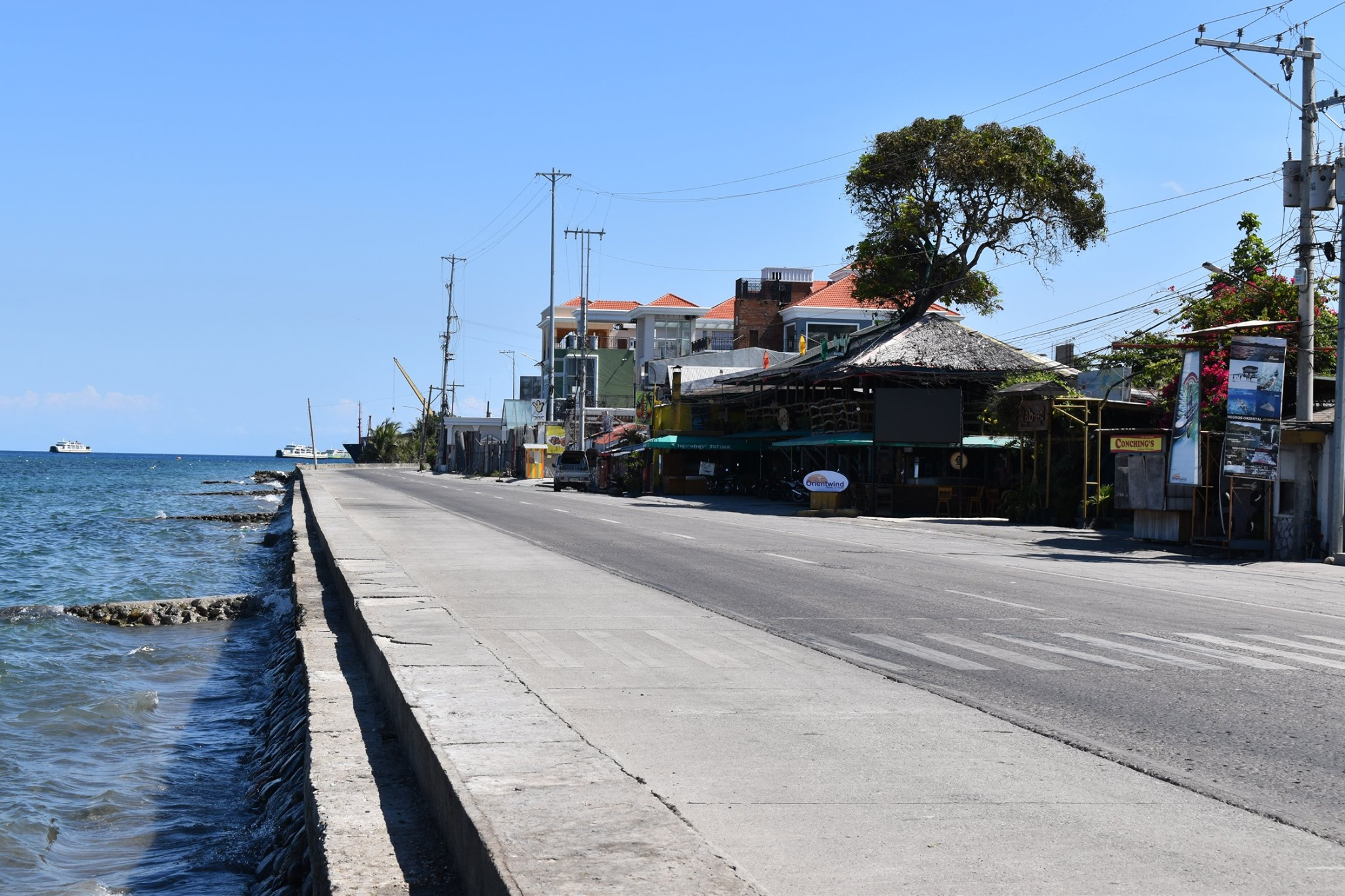 Both the city streets and beaches are empty of Easter Sunday revelers as residents comply with the prohibition on loitering and gatherings in observance of the Enhanced Community Quarantine, which is now on its 10th day. Police officers, anti-crime volunteers, barangay officials and Tanods are out in full force in the streets and beach fronts to implement the orders of Mayor Felipe Antonio Remollo for the residents to stay at home as means to to prevent COVID-19 infection.